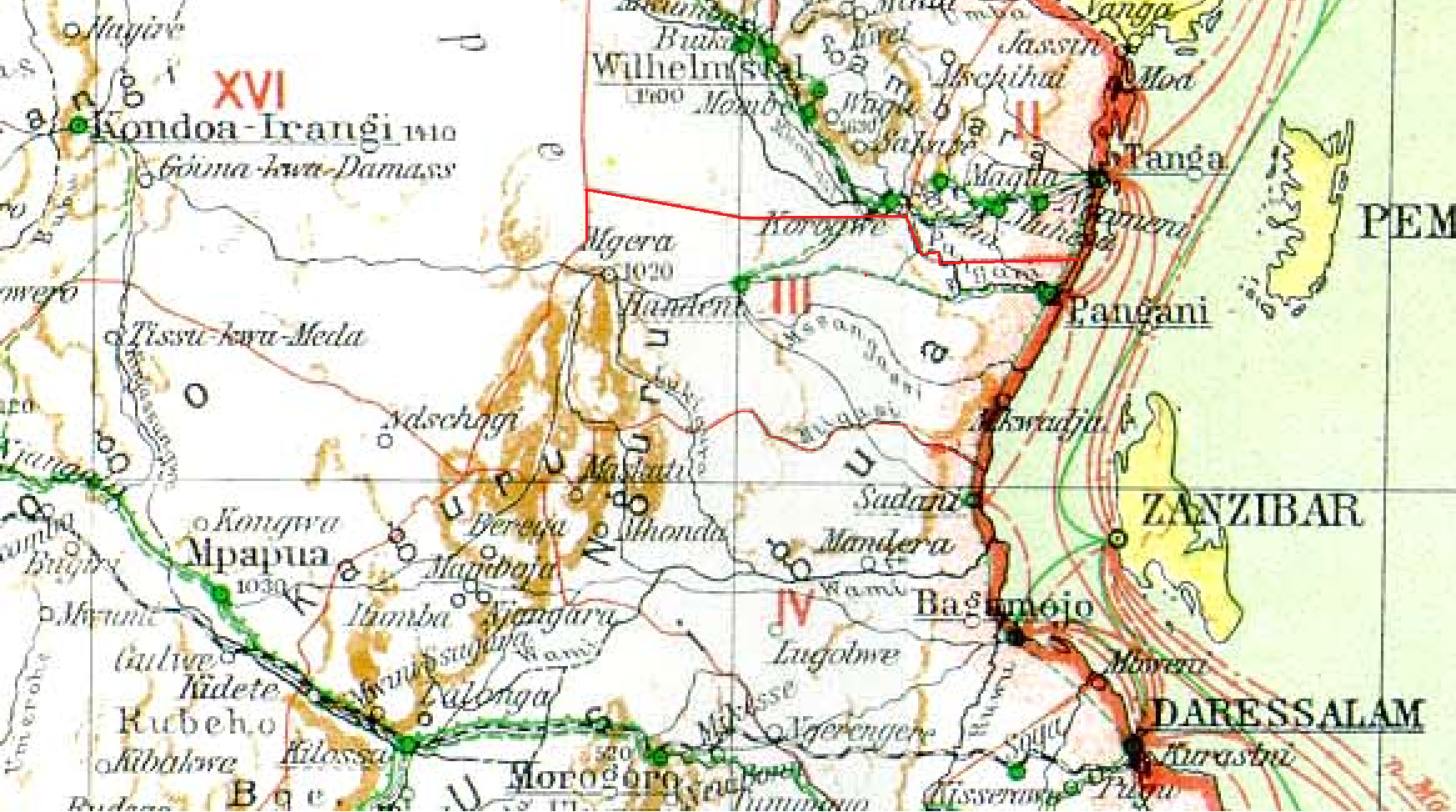 German East Africa, Pangani district. Adapted from Deutsches Kolonial-Lexikon, hrsg. von Heinrich Schnee. - Leipzig : Quelle & Meyer 1920. - 3 Bde.Karte Deutsch-Ostafrika, Topographische Karte